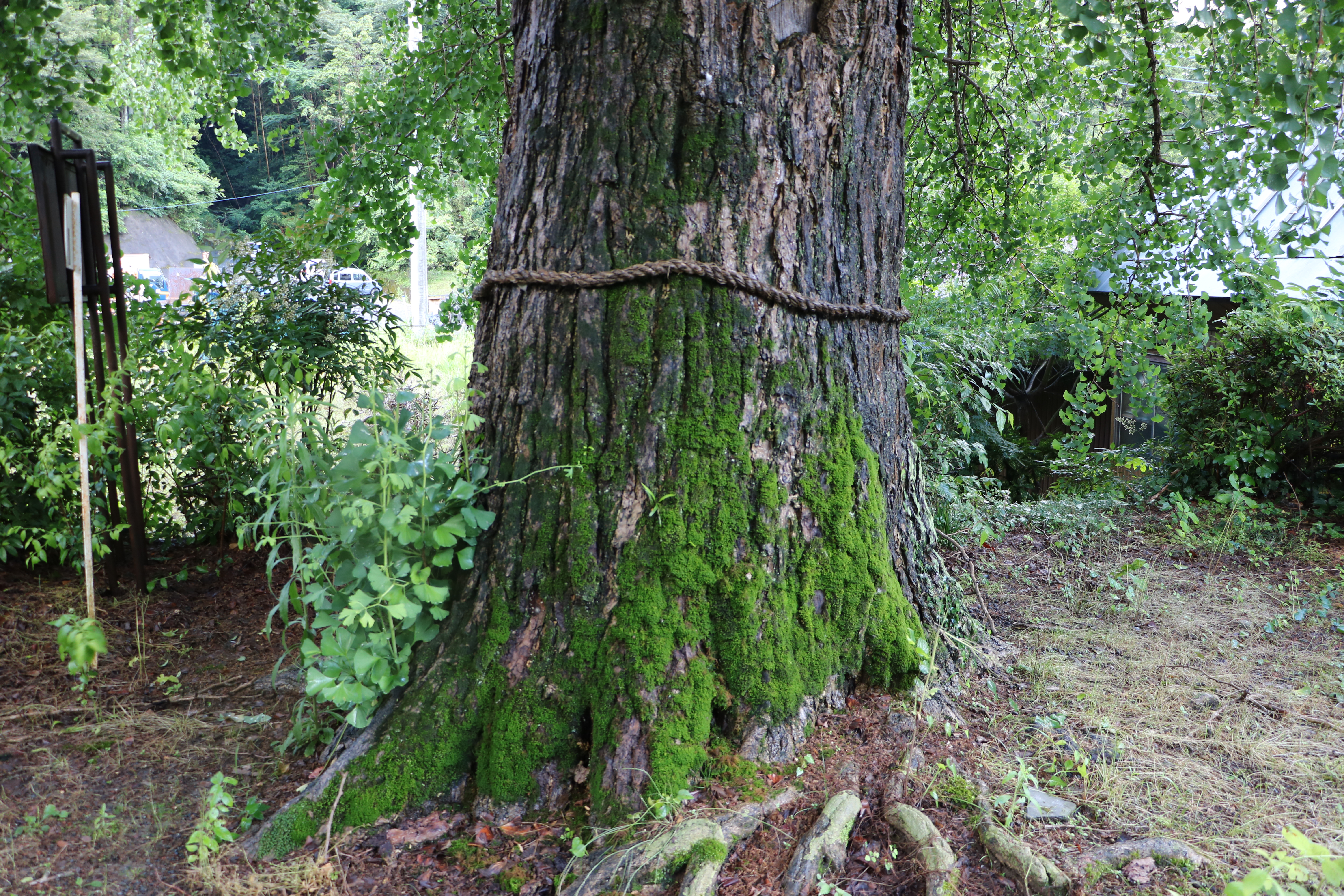 Yagisawa no Ohatsuki Icho. Ginkgo biloba natural monuments in Japan.